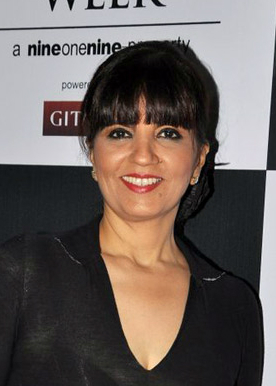 Neeta Lulla at India Resort Fashion Week 2012